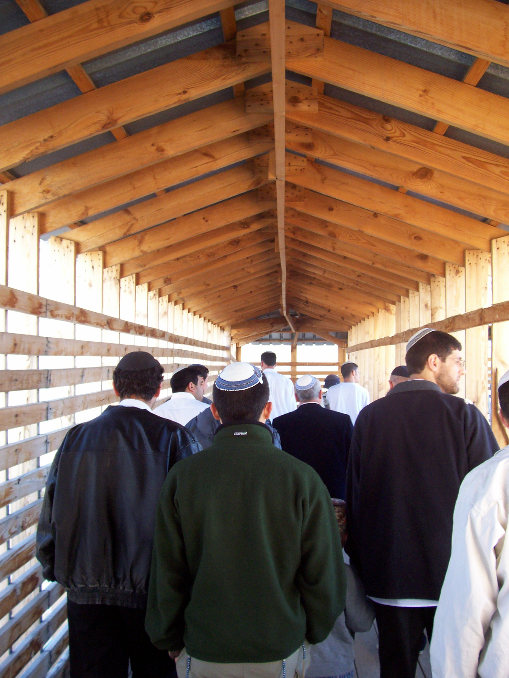 Jews walking in the path to Morocco Gate